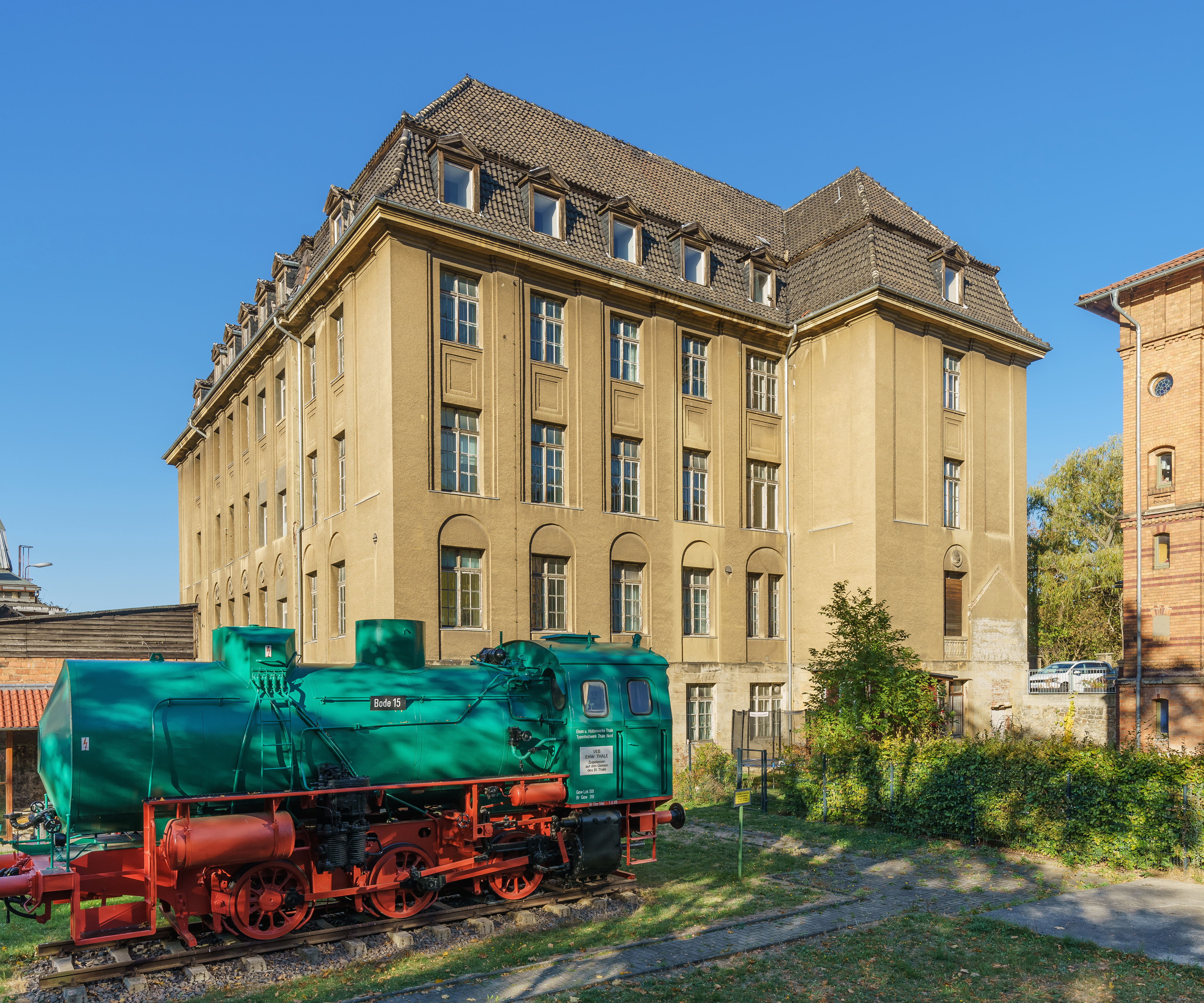 Ironworks Museum in Thale, Germany